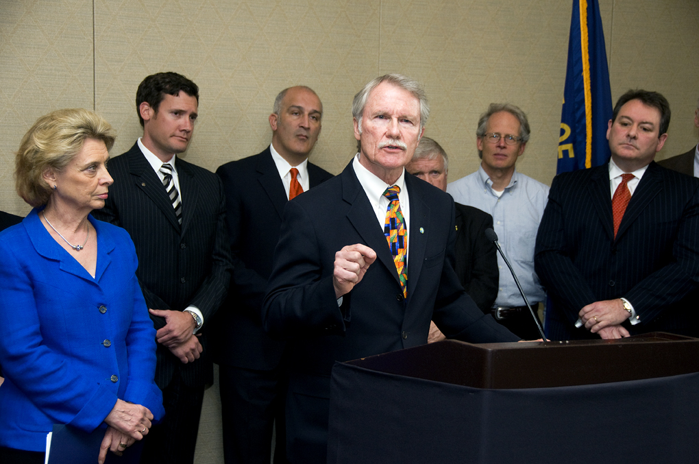 At an April 25, 2011, news conference, Washington Governor Chris Gregoire and Oregon Governor John Kitzhaber announced their plan to take advantage of federal funding opportunities and break ground on the Columbia River Crossing project in 2013.